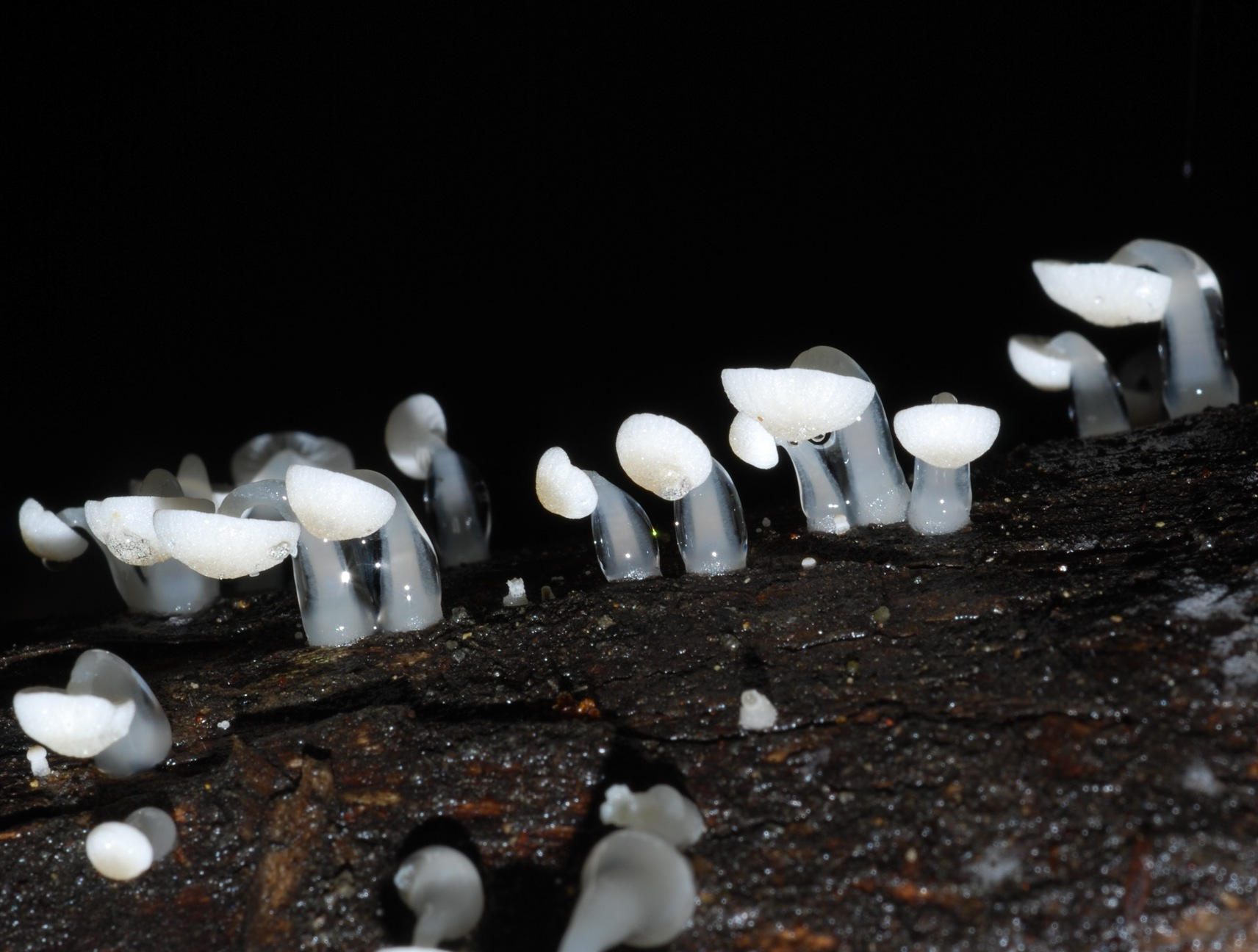 Roridomyces austrororidus Location: Kaipara harbour, Auckland, New Zealand. Notes: On a fallen and rotten branch of Leptospermum scoparium in native New Zealand bush.